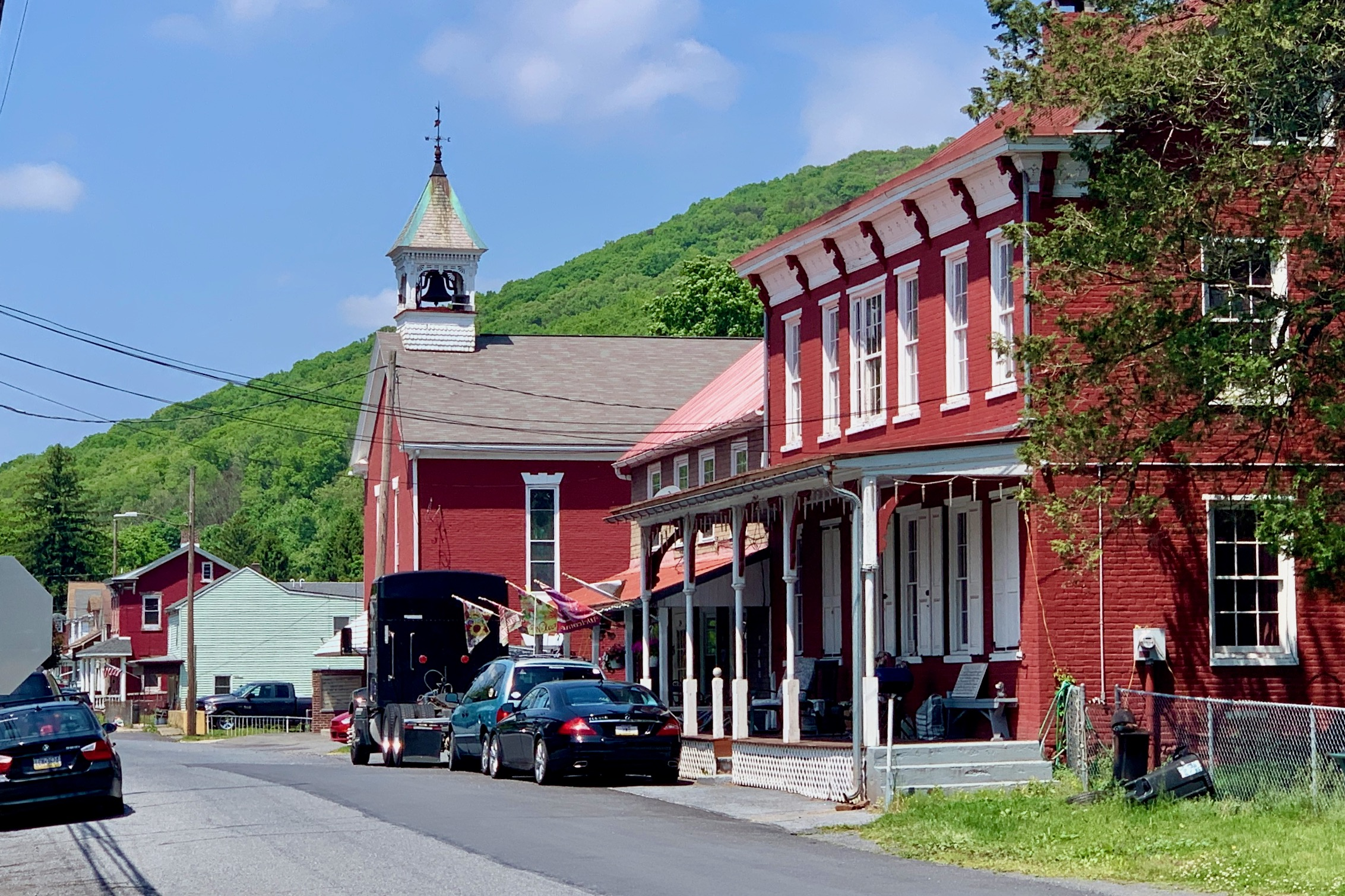 View looking north along Penn Street in Port Clinton, Pennsylvania. St. John’s Church is in the center.